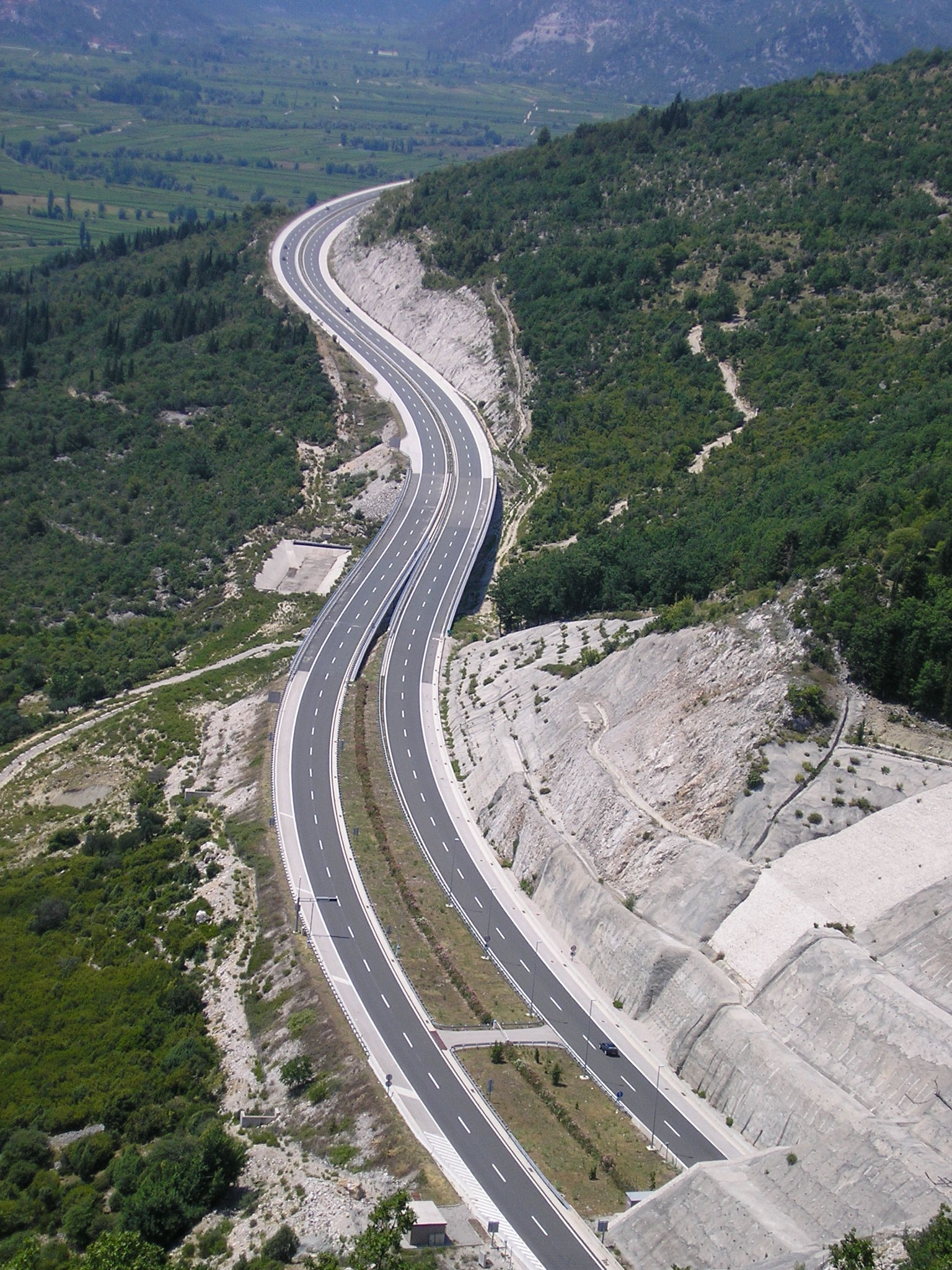 A1 highway near Otrić-Seoci